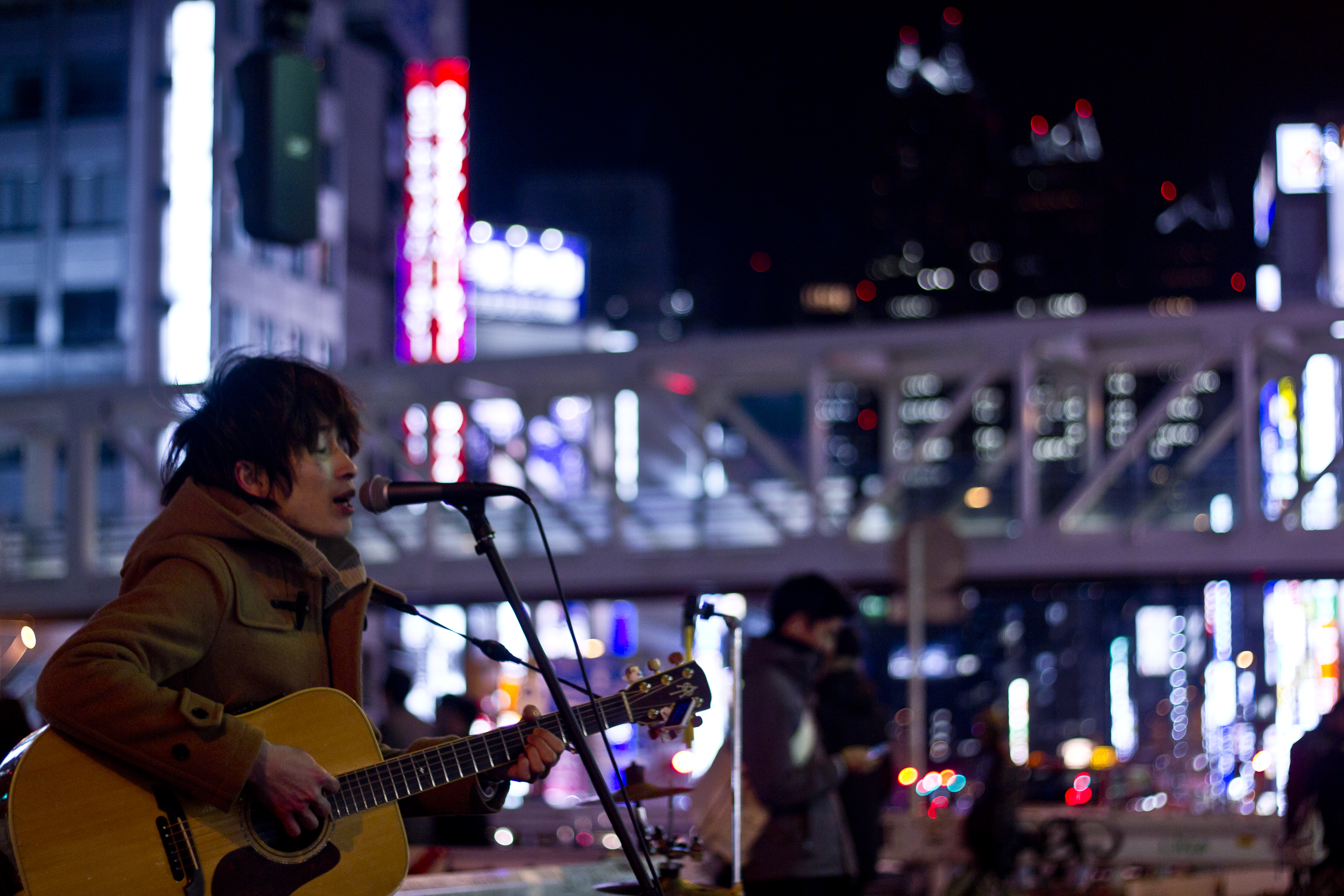 Busker south of the Shinjuku station, Tokyo, Japan